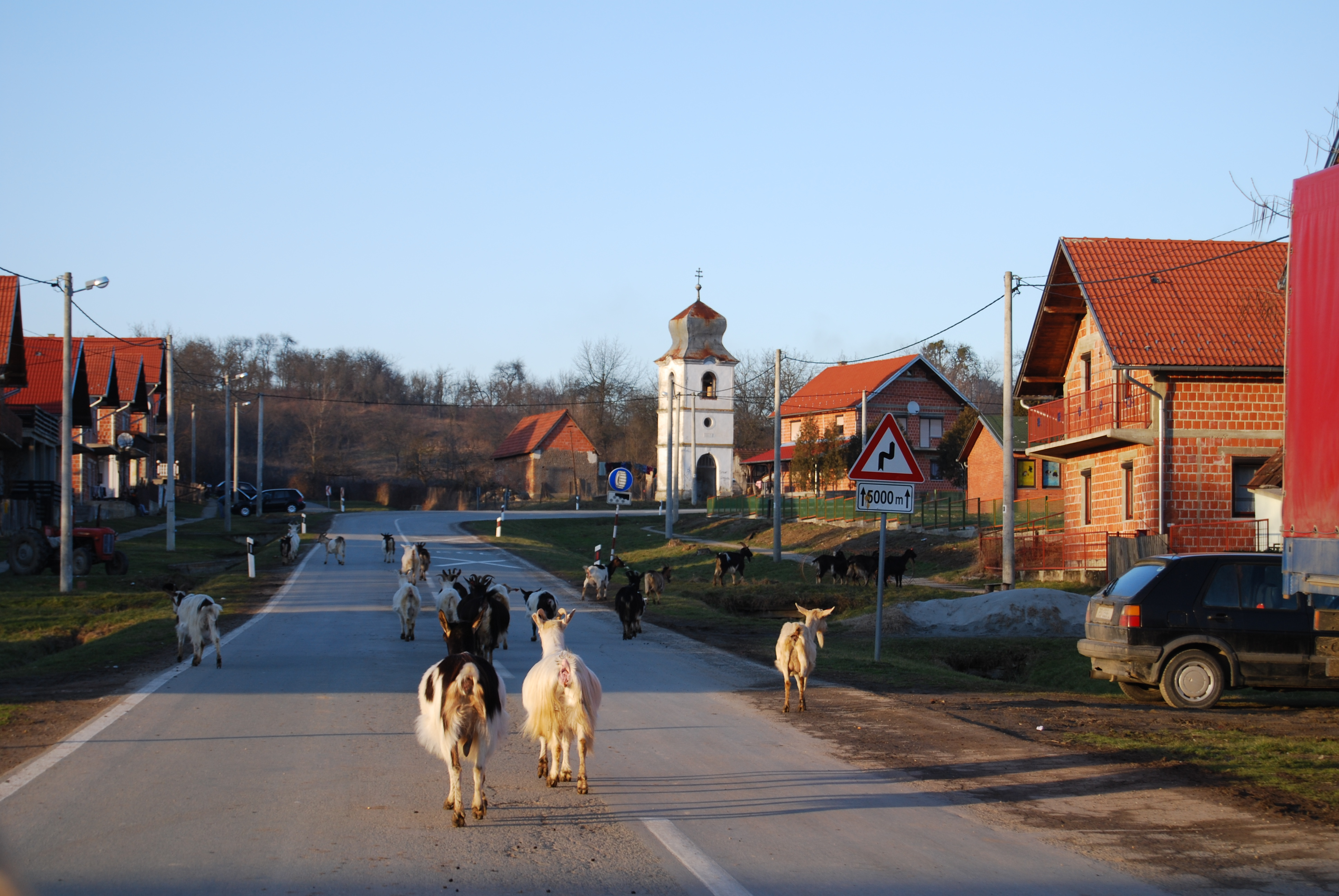 Street in Čeralije village, Croatia